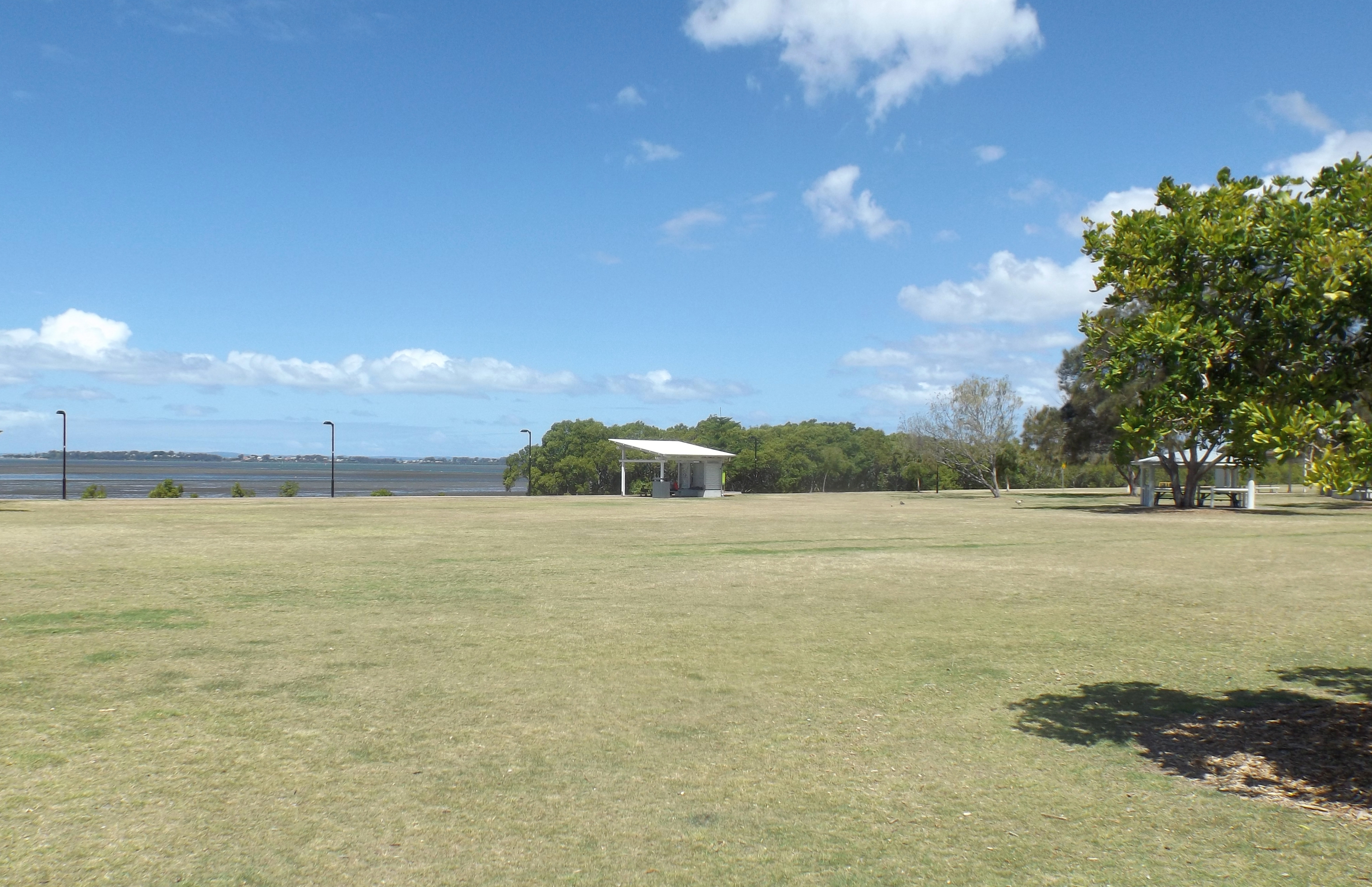 Photo of Moreton Bay foreshore reserve at Lota in Brisbane, Queensland, Australia. Wellington Point is in the background.